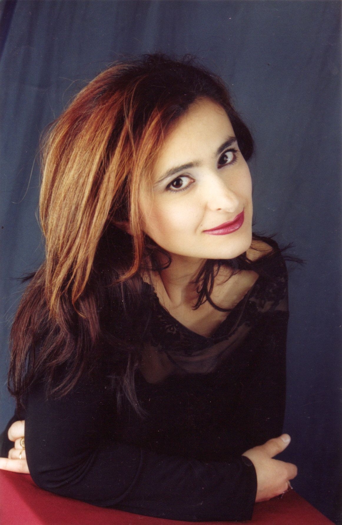 Liliana Marin, Mezzosoprano Leggero, is one of the most beautiful and powerful voices in the contemporary lyrical music scene.